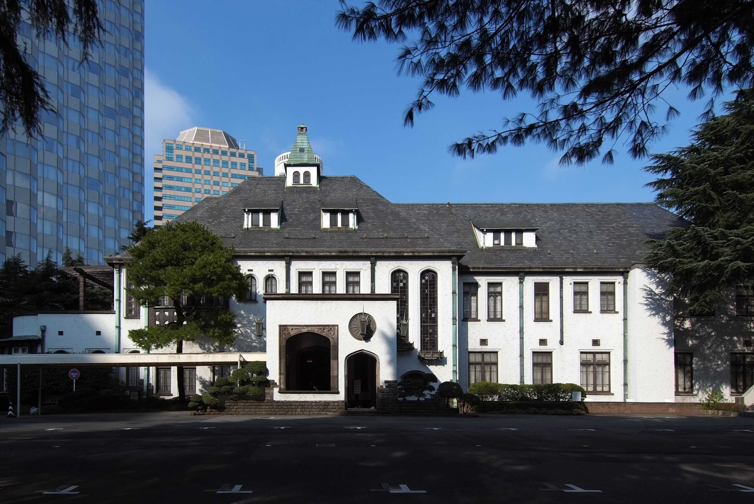 Akasaka Prince Hotel Annex, formerly Yi Un's residence, in Chiyoda Ward, Tokyo, Japan